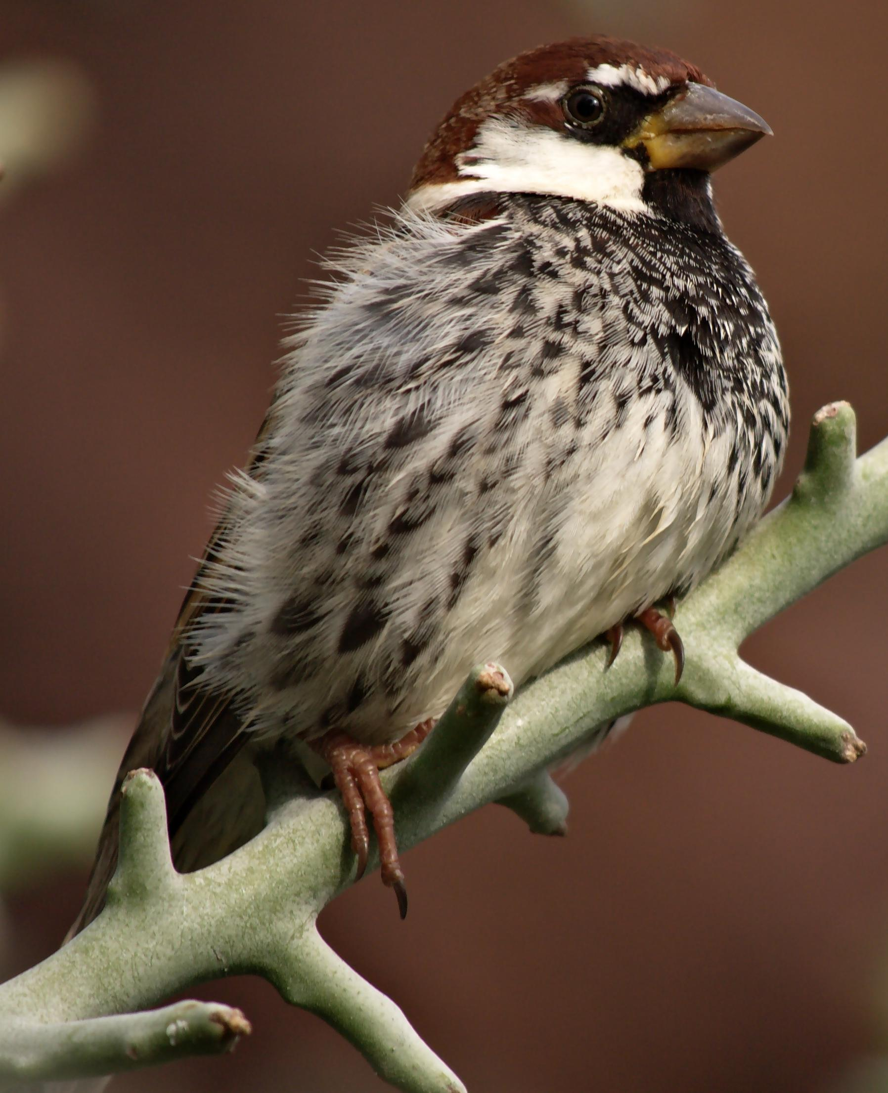 A male Spanish Sparrow on Teguise, Canary Islands